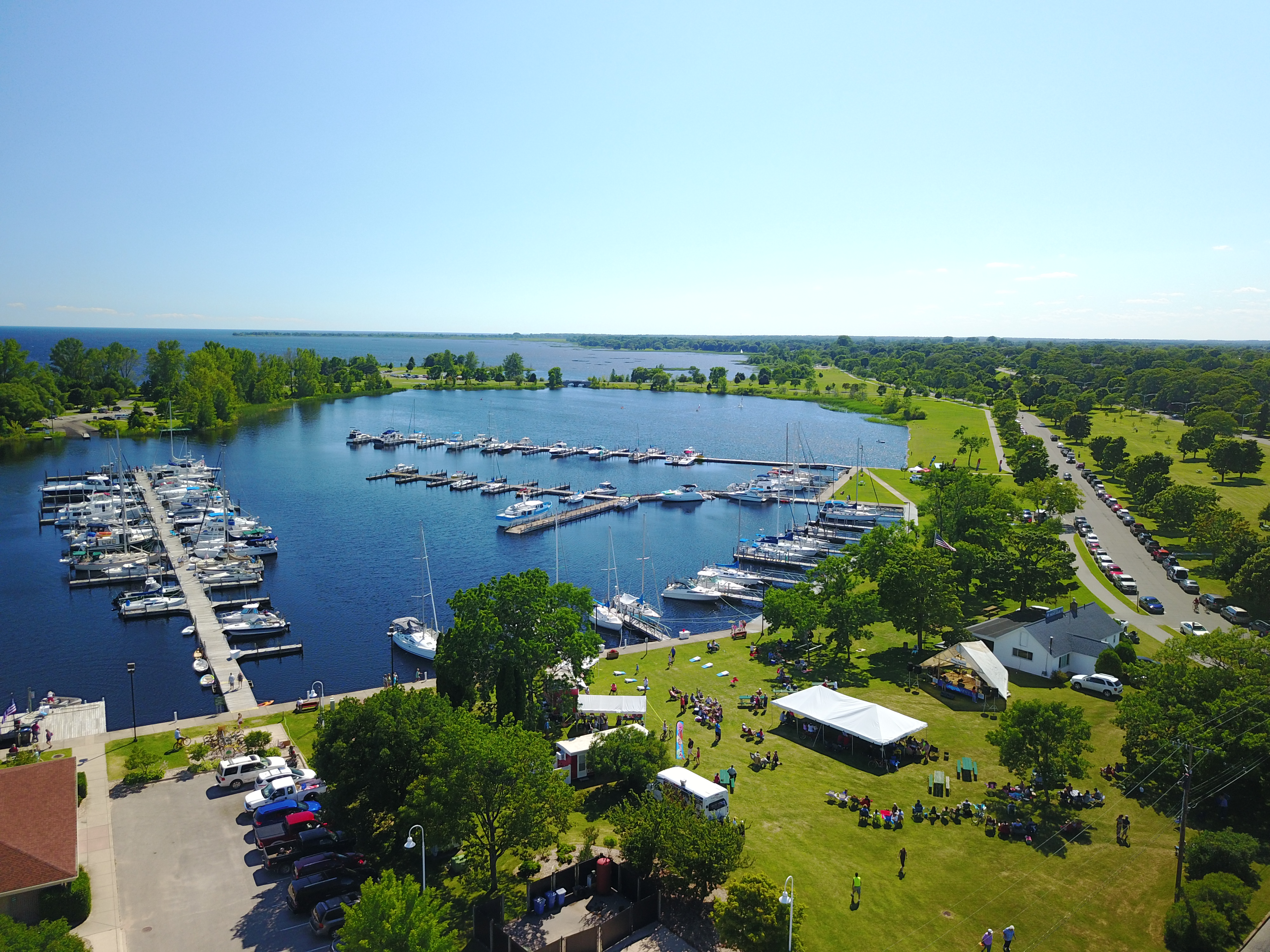 Annual Marina Fest at the Escanaba Harbor.